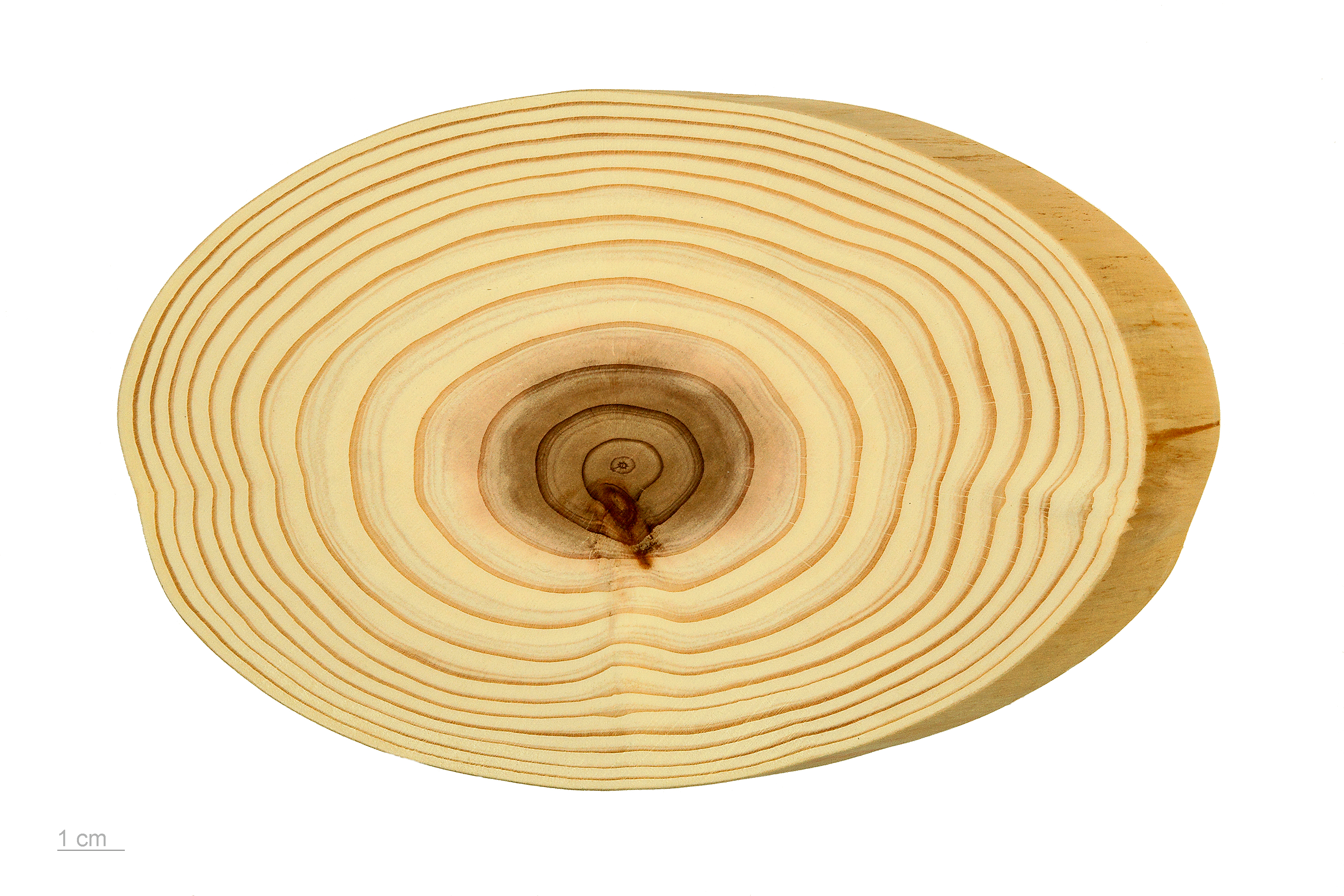 Japanese cedar , wood